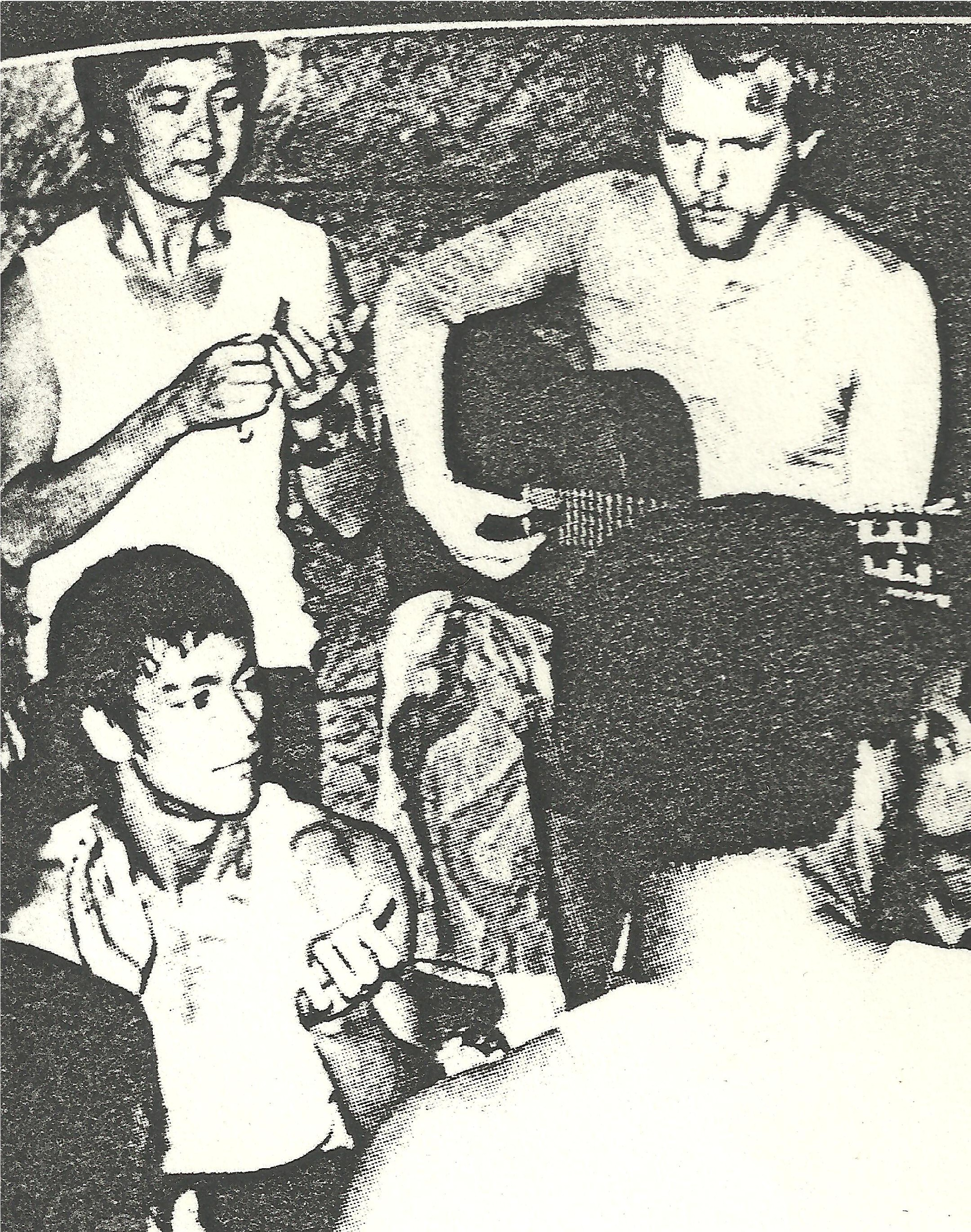 Bruce Lee and Anders Nelsson